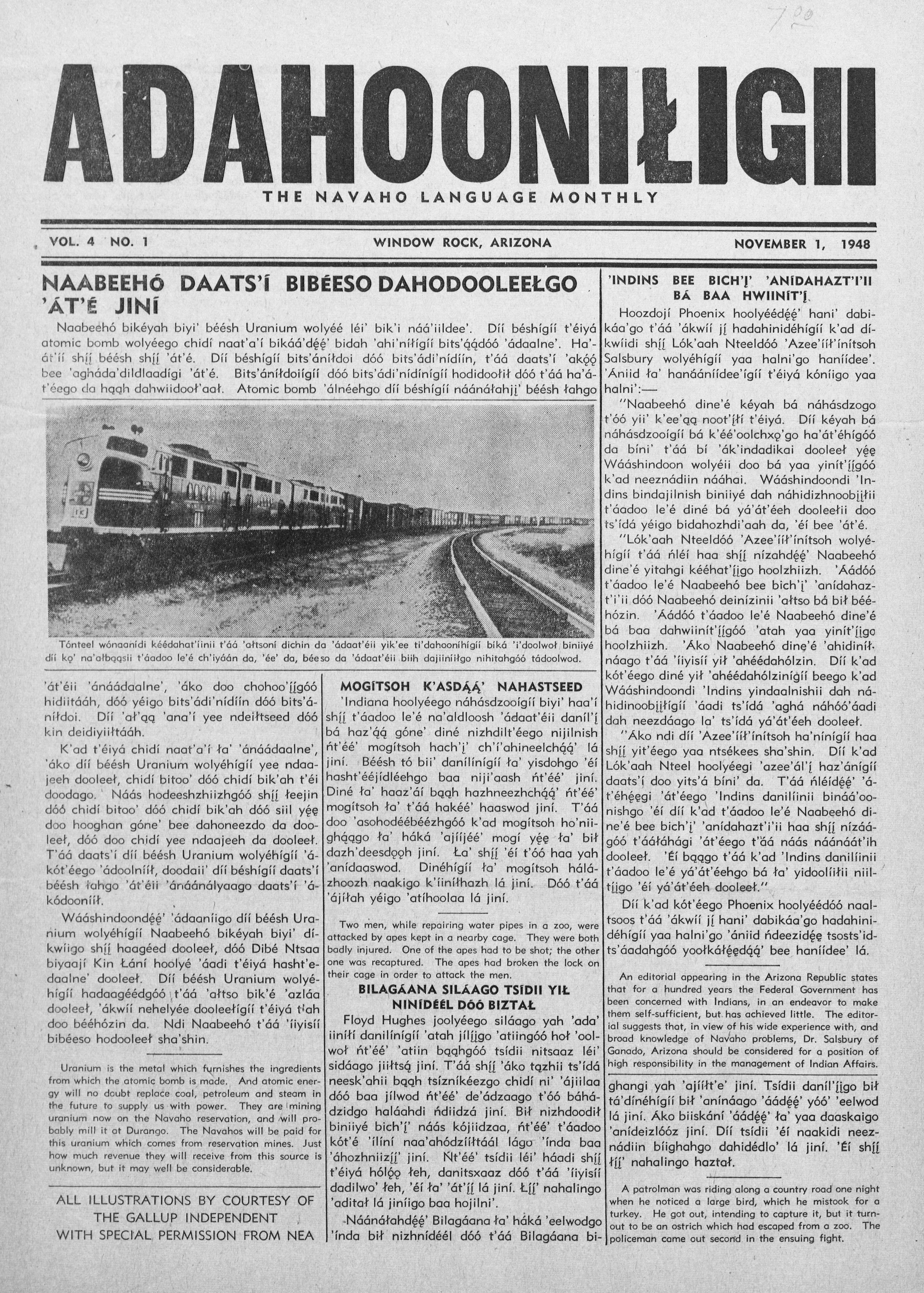 Train carrying Uranium for Atomic Bomb - Cover Page